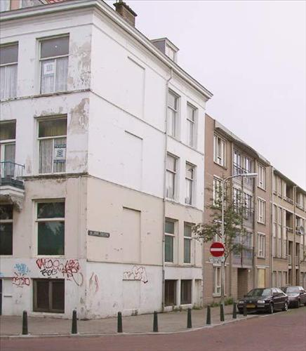 Oranjeplein The Hague, The Netherlands, before renovation in 2003.